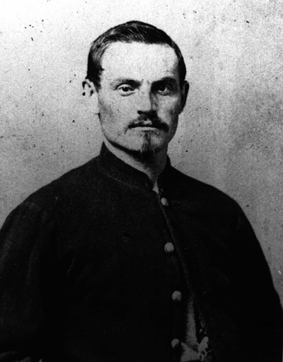 Description:Photograph of Civil War Medal of Honor recipient Peter Kappesser Author: S.Kappesser